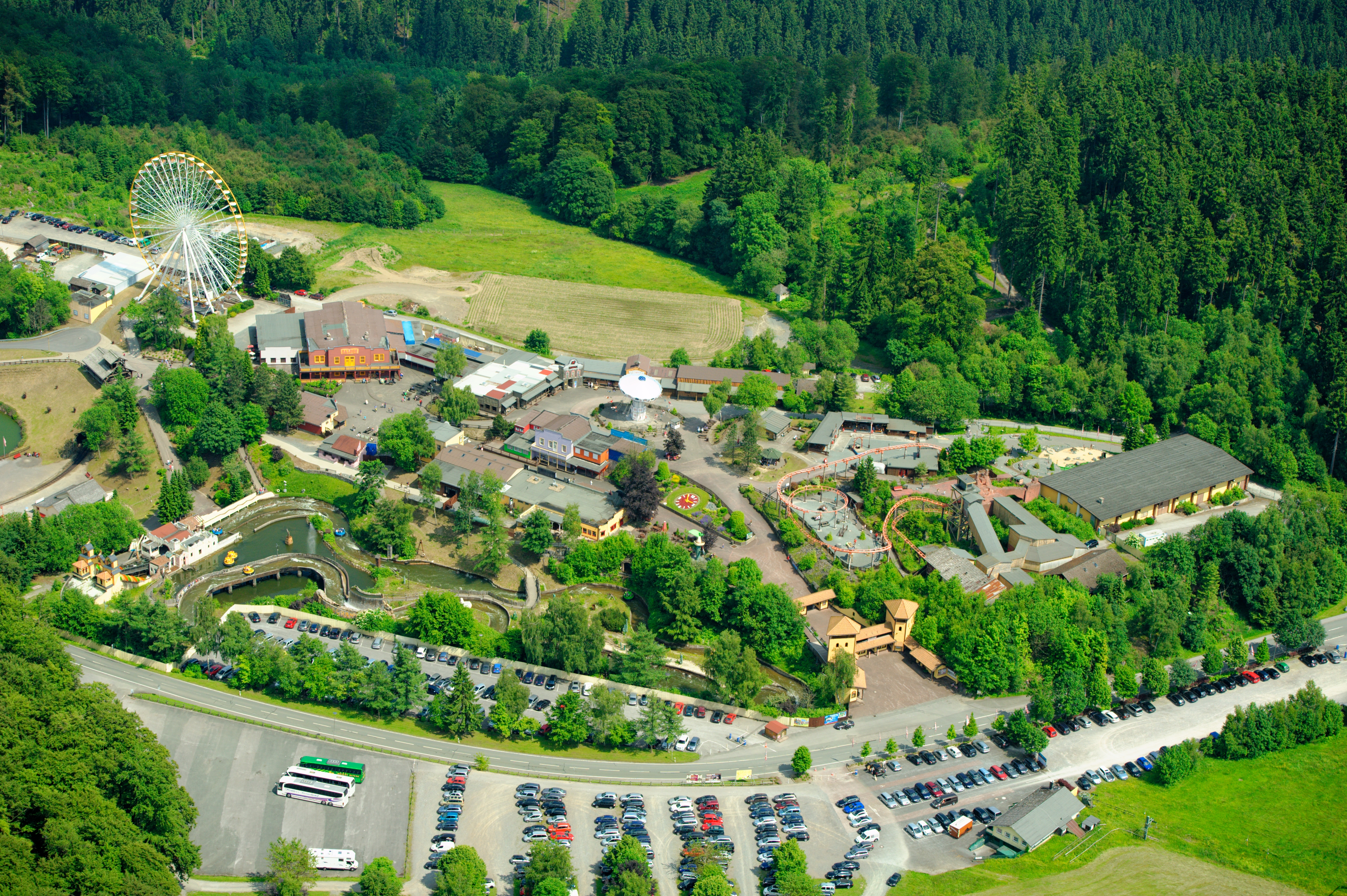 Fotoflug Sauerland-Ost – Bestwig, Fort Fun The making of this document was supported by the Community-Budget of Wikimedia Germany.